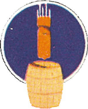 Emblem of the 338th Bombardment Squadron (World War II)